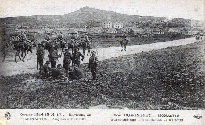 British Troops at Kilkis, Greece, during World War i (Salonica Front).